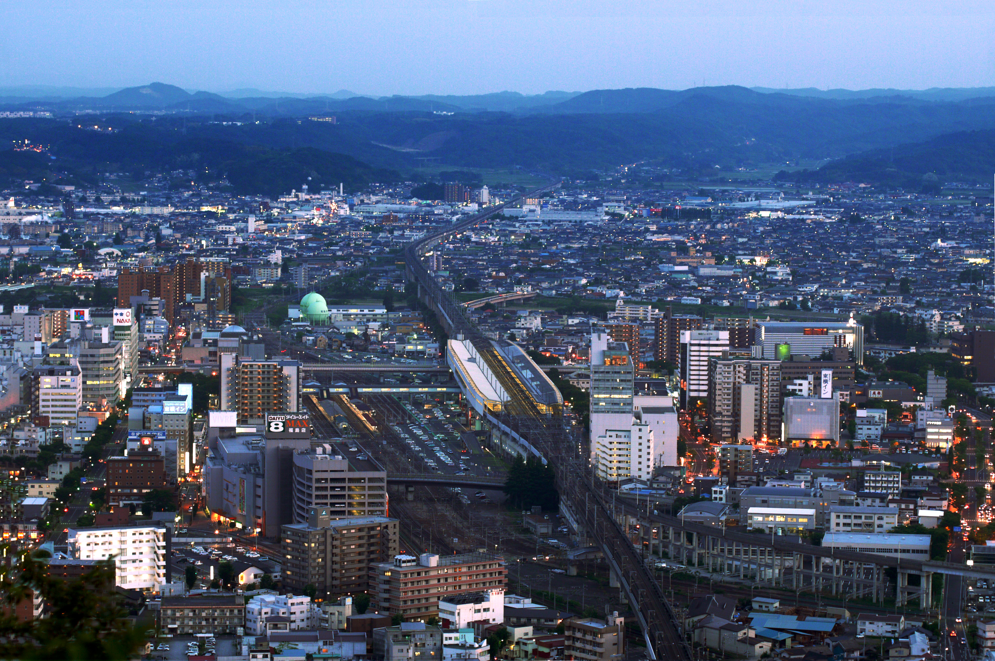 This is a view of Fukushima City, Fukushima Prefecture, Japan centered upon Fukushima Station. Running from south (top of photo) to north (bottom of photo), the Tohoku Shinkansen connects Tokyo with the northeastern part of Honshu island, running all the way up to Aomori Prefecture. Fukushima Station's importance lies in that it's where the Yamagata Shinkansen (bottom right) splits off from the Tohoku Shinkansen and heads off on its own.